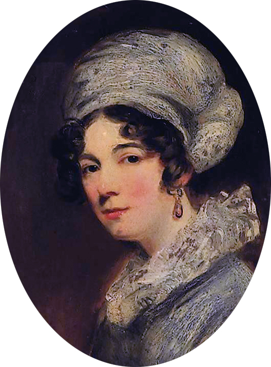 An oil-on-panel portrait of Sarah Lyttelton, Baroness Lyttelton (née Spencer) (1787–1870), a British courtier, governess to Edward VII of the United Kingdom and wife of William Lyttelton, 3rd Baron Lyttelton. She was the eldest daughter of the Whig politician Sir George Spencer, 2nd Earl Spencer. The painting is believed to be a study for a group portrait of Sarah Spencer, Lady Lyttelton and William Lyttelton presently at Althorp, the seat of the Spencer family.